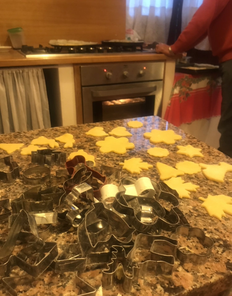 Making of Befanini biscuits